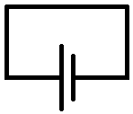 short-circuit